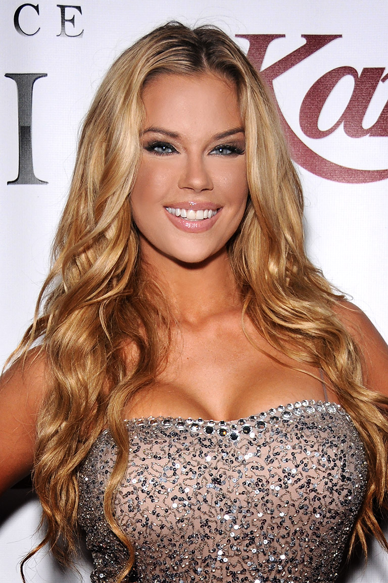 Jessa Hinton, Hollywood, California on June 14, 2013 - Photo by Glenn Francis of